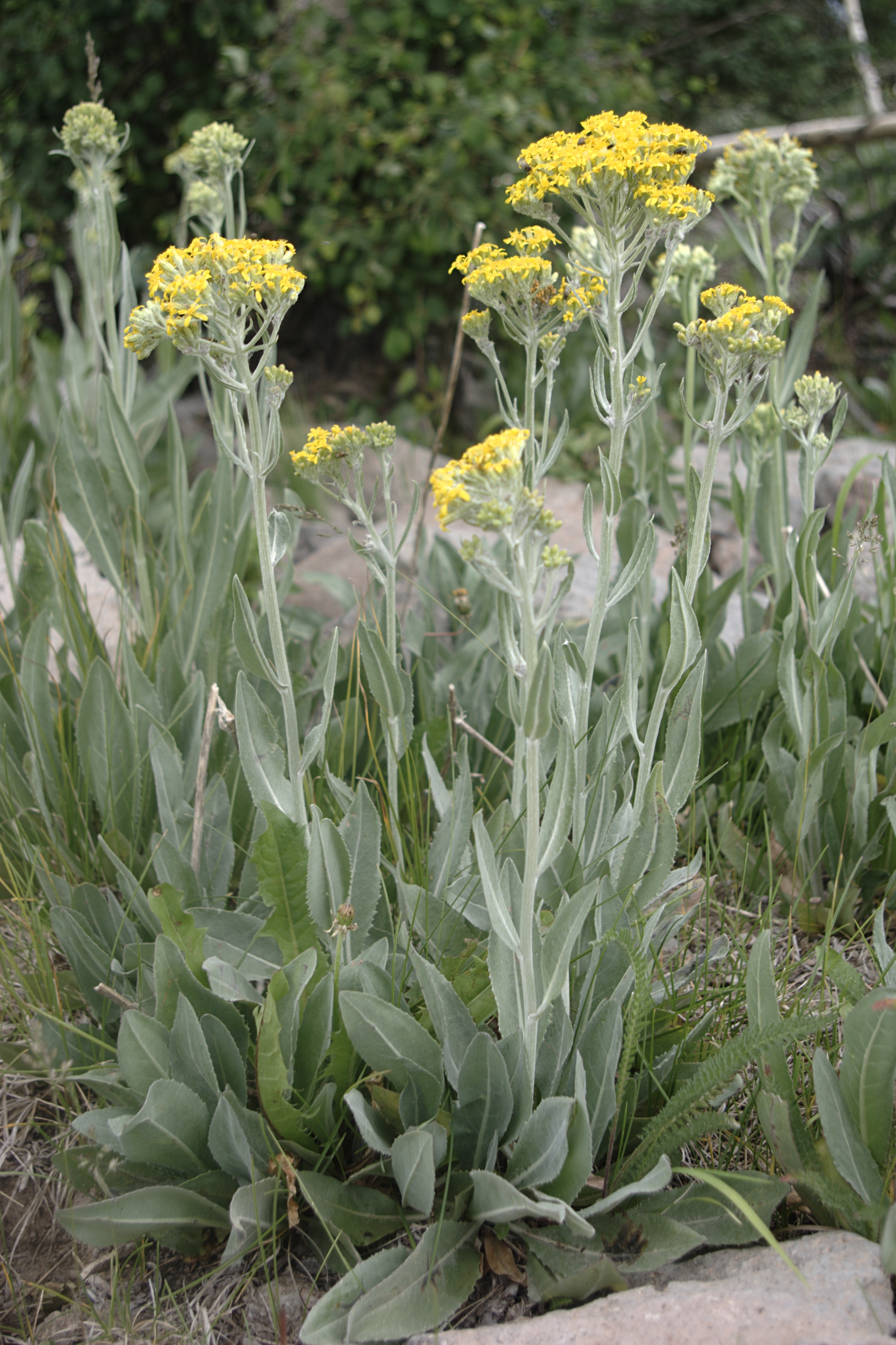 Senecio atratus, slide butterweed or tall blacktip ragwort, Forest Road 144, Santa Fe National Forest, Rio Arriba County, New Mexico.